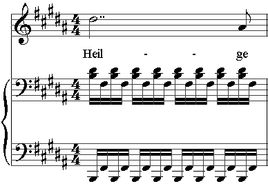 Bar five of Franz Schubert's song Nacht und Träume.